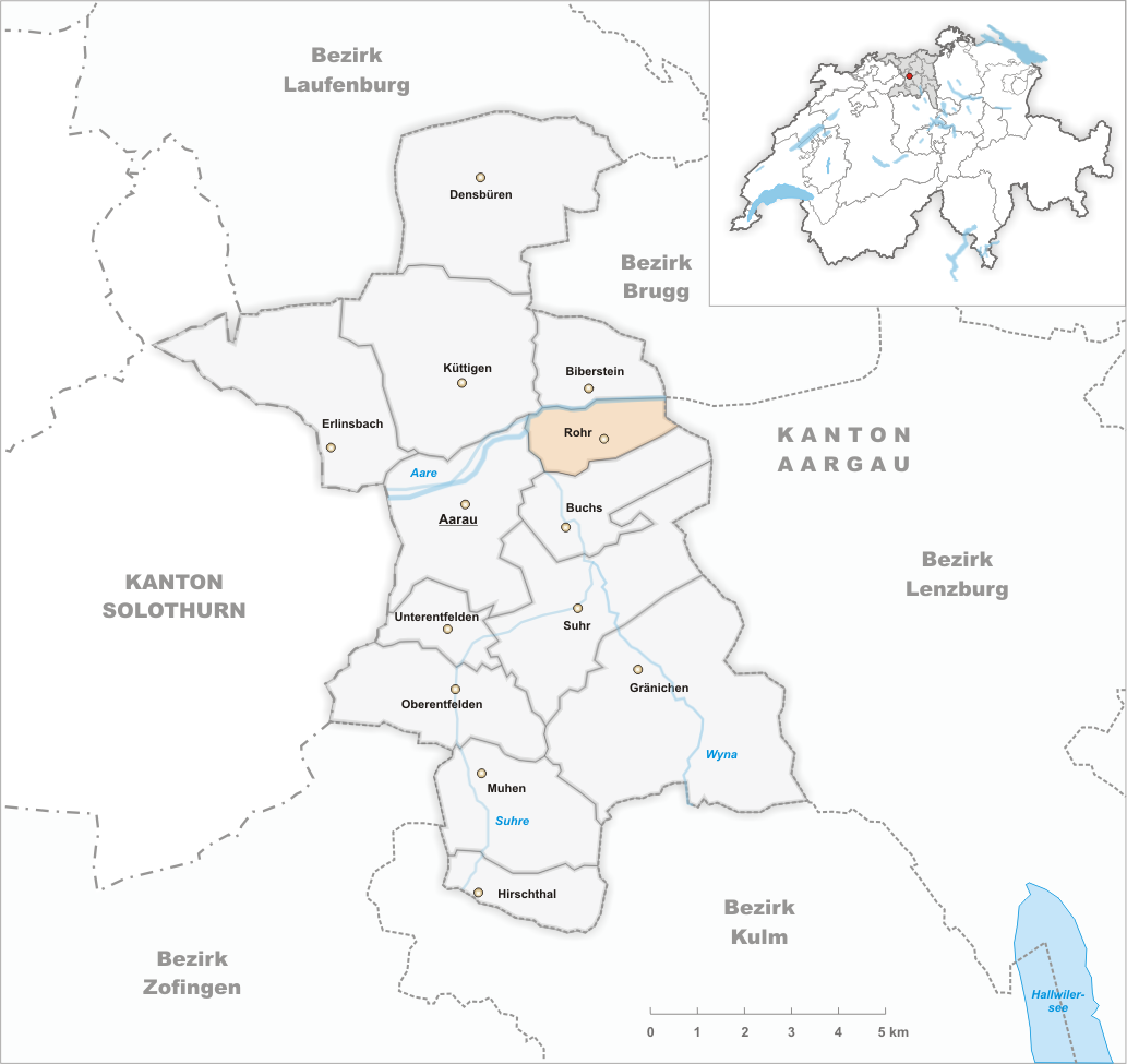 Municipality Oberentfelden